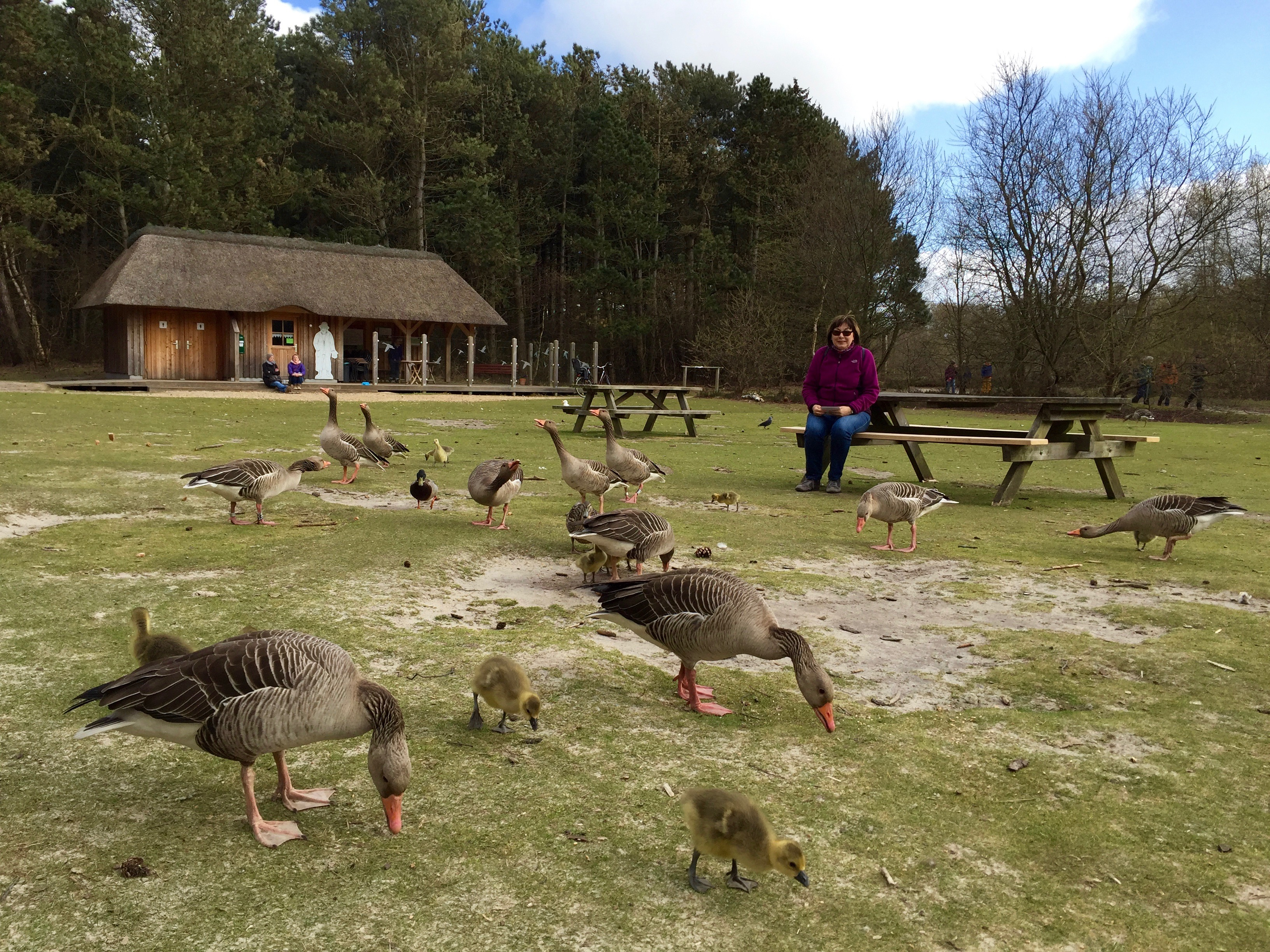 The making of this document was supported by the Community-Budget of Wikimedia Germany. An der Vogelkoje Meeram